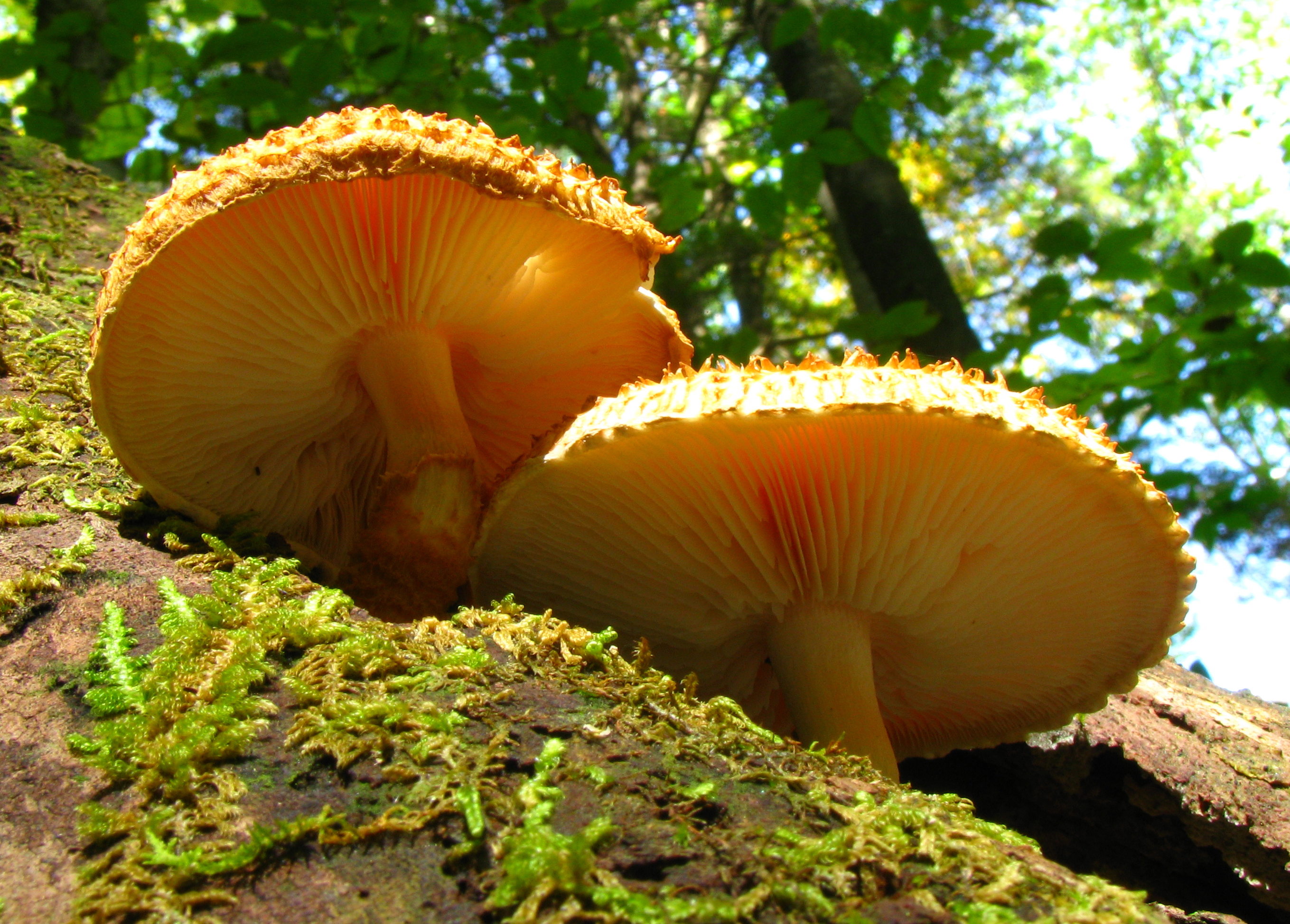 The mushroom Leucopholiota decorosa. Specimens photographed in Cranberry Wilderness, Monongahela National Forest, West Virginia, USA. Original photo cropped by uploader.